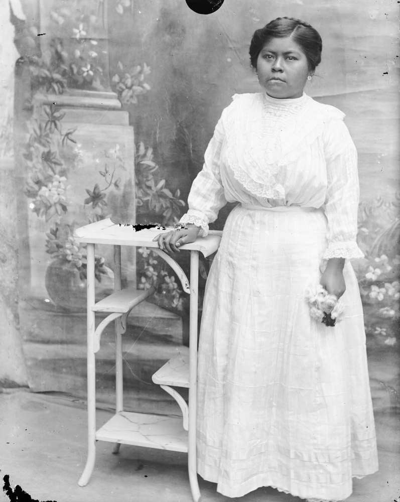 Title: [Portrait of Woman Holding Flowers] Creator: Sanchez, Cruz Date: ca. 1910-1919 Part Of: Elmer and Diane Powell collection on Mexico and the Mexican Revolution Collection Place: Yautepec, Morelos, Mexico Physical Description: 1 negative: glass plate, black and white; 13 x 10 cm File: ag2014_0005_04_04_09_sm_opt.jpg Rights: Please cite DeGolyer Library, Southern Methodist University when using this file. A high-resolution version of this file may be obtained for a fee. For details see the web page. For other information, . For more information and to view the image in high resolution, see: View the Elmer and Diane Powell Collection on Mexico and the Mexican Revolution